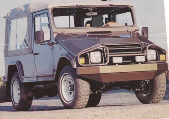 UMM Alter 1984